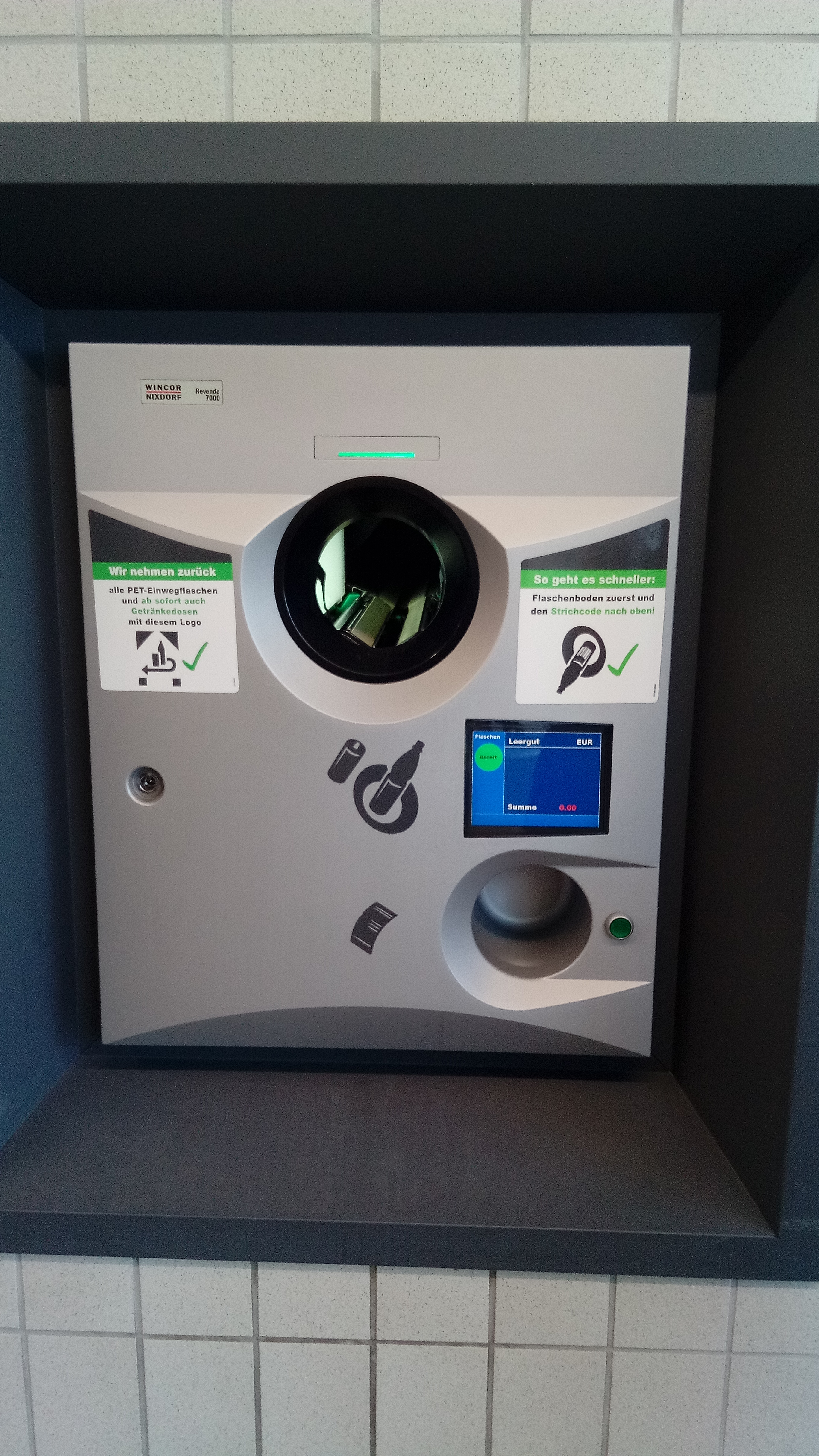 A reverse bottle vending machine inside of an Aldi supermarket inside of the Famila Einkaufsland Wechloy in the Low-Saxon city of Oldenburg.